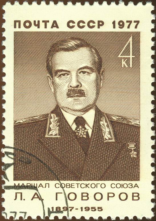 A USSR stamp, Military persons of the USSR